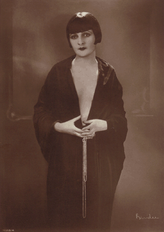 Lya De Putti